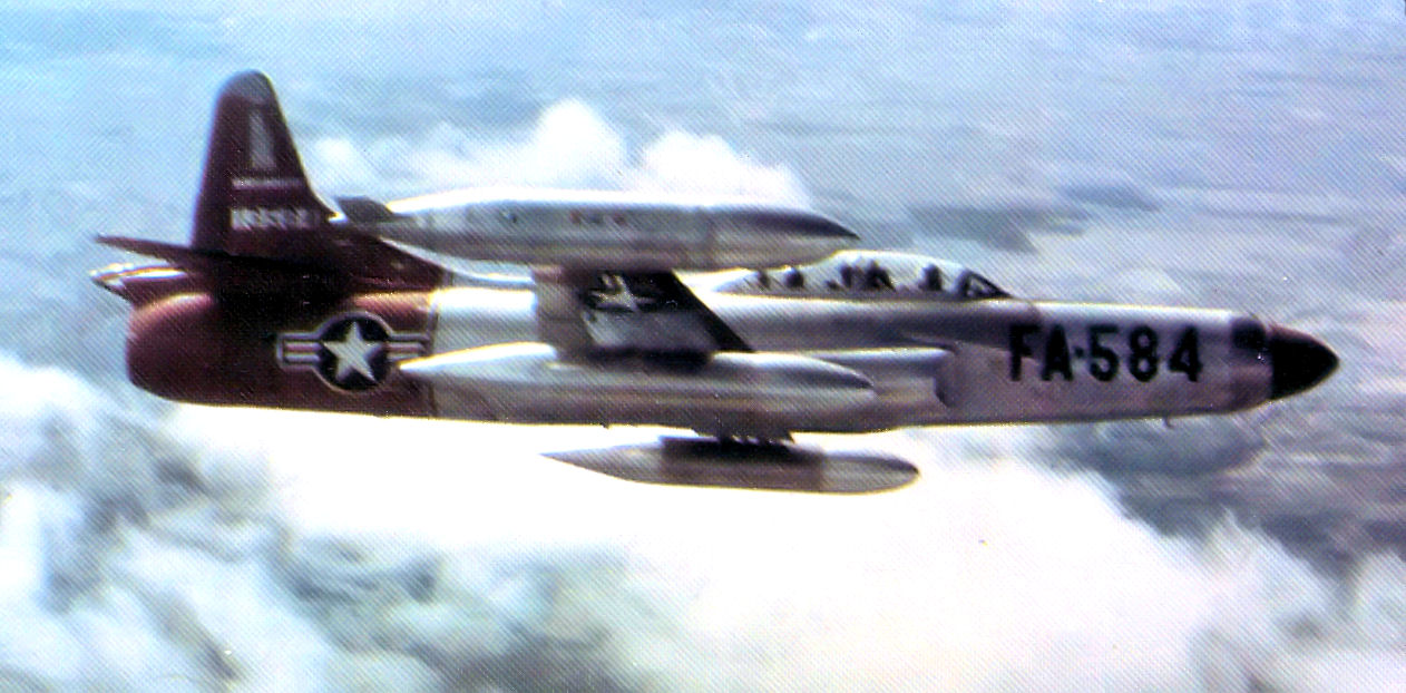 29th Fighter-Interceptor Squadron F-94C 51-3584 carrying Arctic Markings